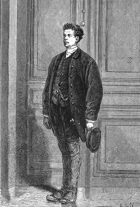 An ilustration from the novel "Around the World in Eighty Days" by Jules Verne painted by Alphonse de Neuville and/or Léon Benett.